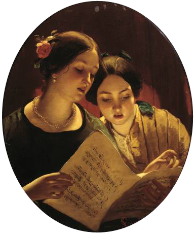 The Duet. Oil on canvas, 76.8 x 64.1 cm This raster graphics image was created with GIMP